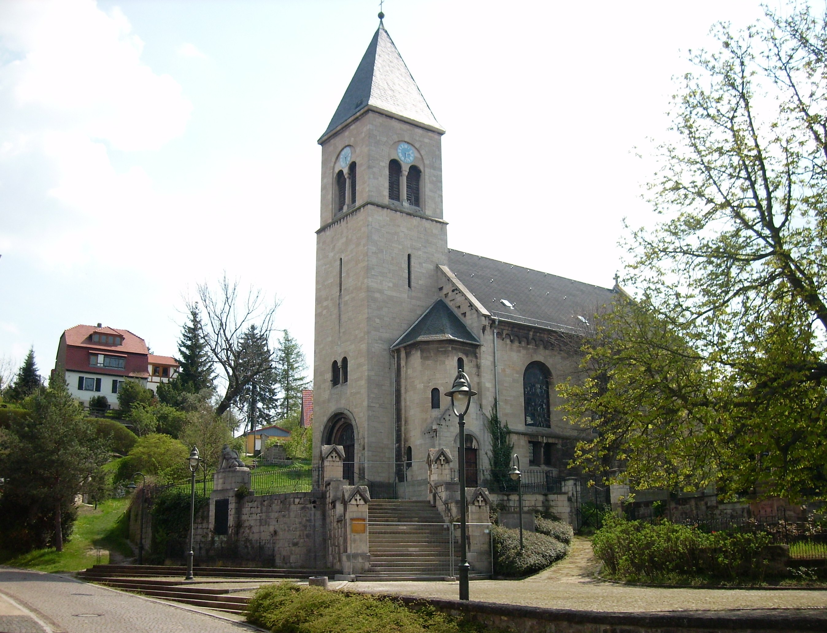 Grossjena Church (Naumburg/Saale, district of Burgenlandkreis, Saxony-Anhalt)